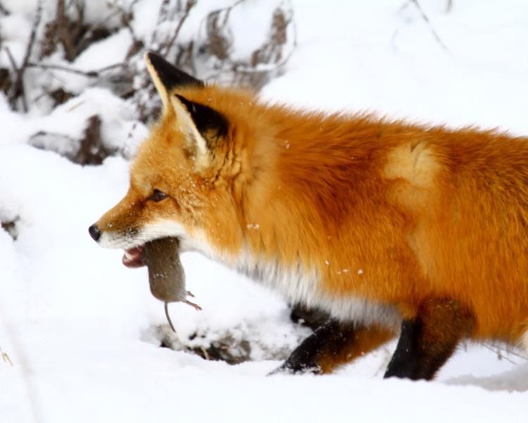 At Sunkhase National Wildlife Refuge, ME. Credit: Dave Small